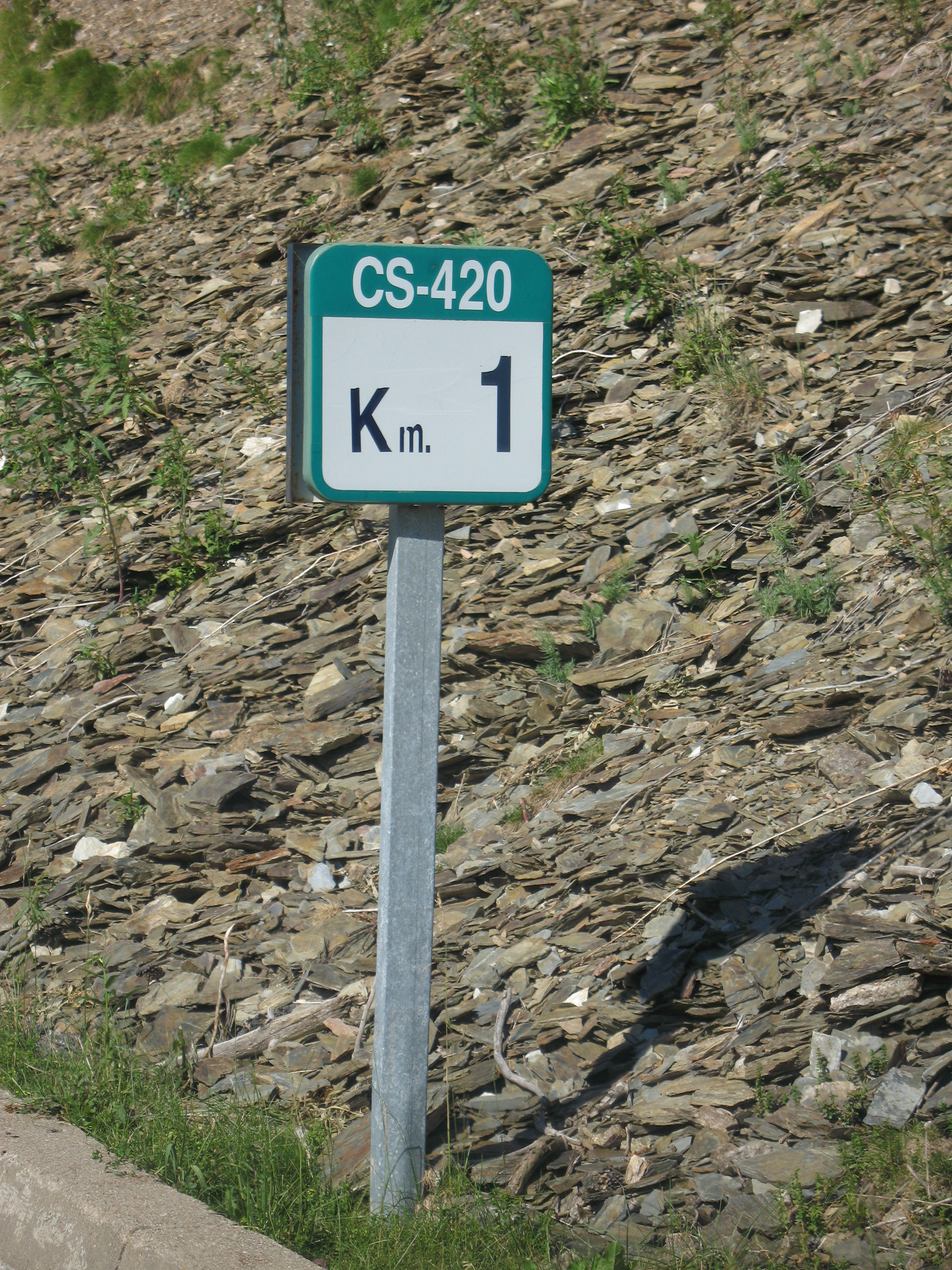 A km sign on the CS-420 of Andorra.